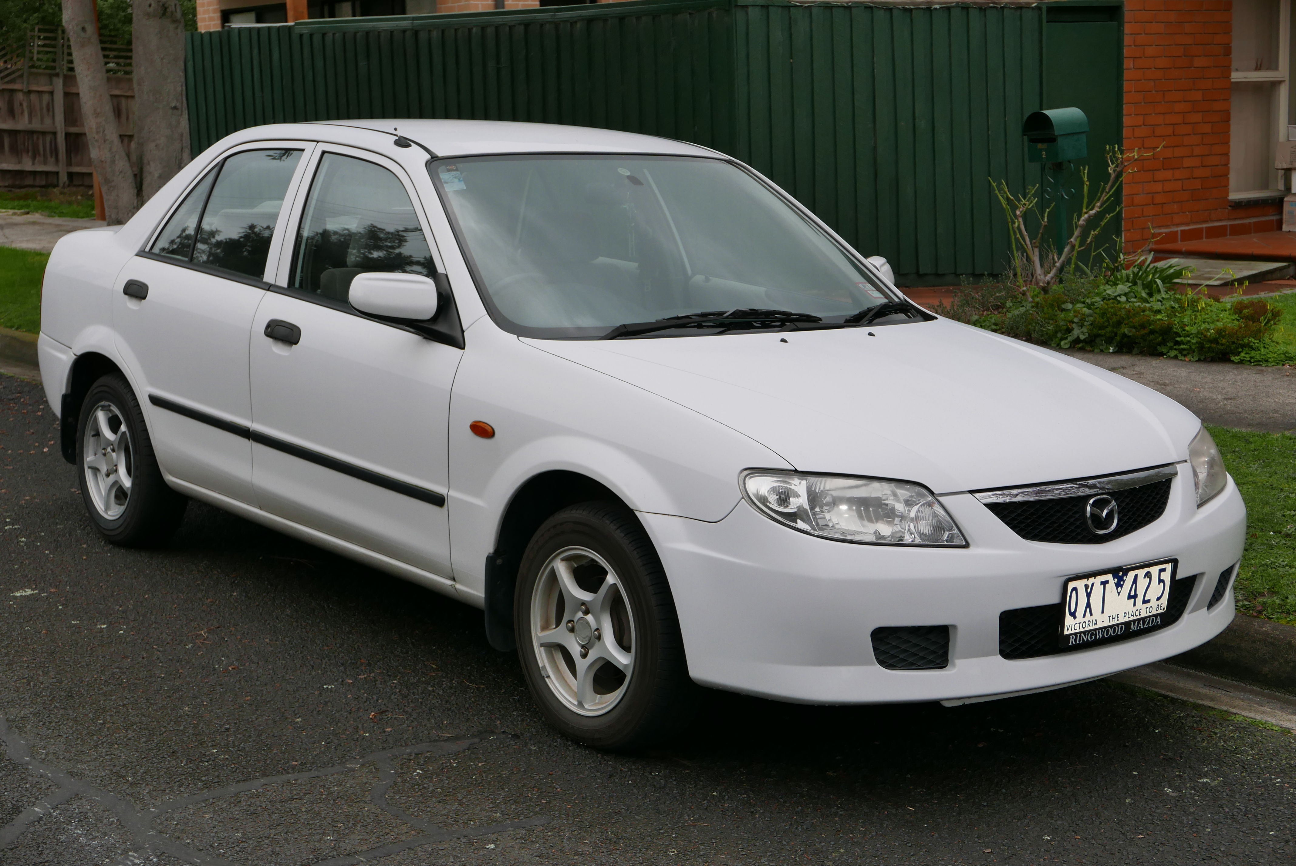 2001 Mazda 323 (BJ II) Protegé Shades sedan. Photographed in Doncaster East, Victoria, Australia. Vehicle registration enquiry resultsJurisdictionVictoriaRegistrationQXT425Chassis codeJM0BJ10M200203347Engine codeZM500602Compliance date2001-04Year of manufacture2001